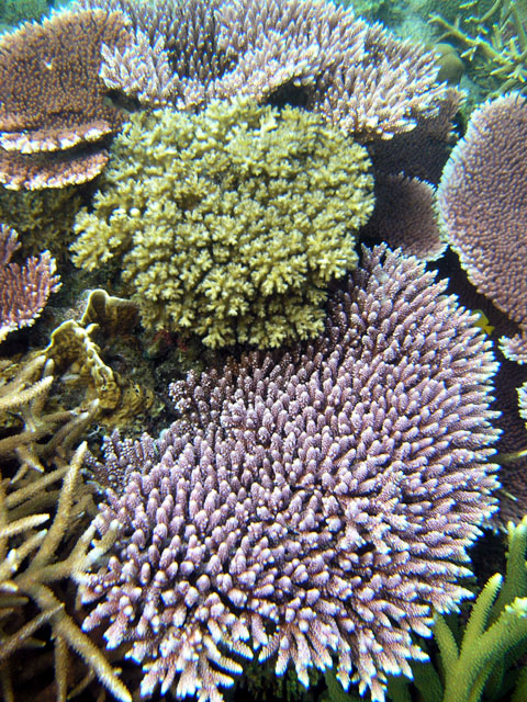 Staghorn coral (Acropora sp.), Pulau Tioman, West Malaysia